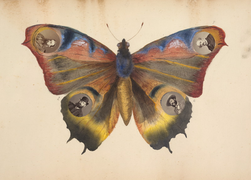 Marie-Blanche-Hennelle Fournier French, 1831–1906 The Madame B Album, 1870s Victorian photocollage album 11 1/2 x 16 1/2 in. (album pages); 12 x 17 in. (album) Mary and Leigh Block Endowment